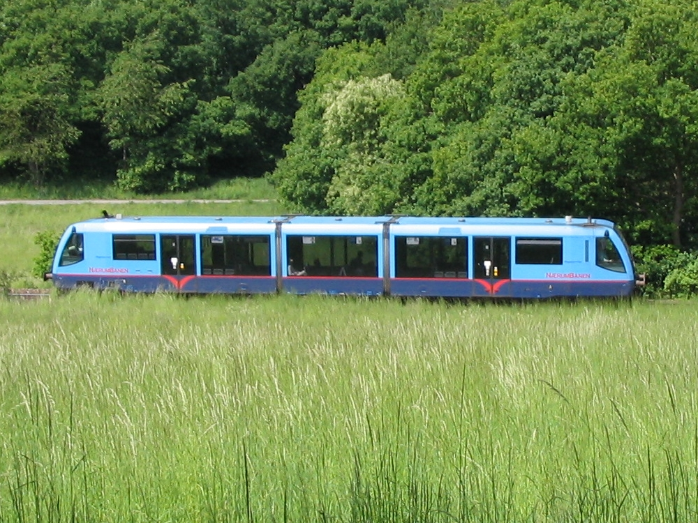 Regiosprinter south of Nærum, Denmark